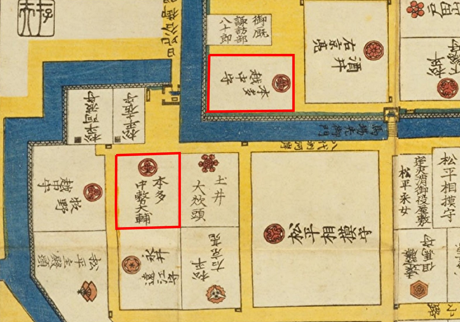 A residence of Honda clan at Edo